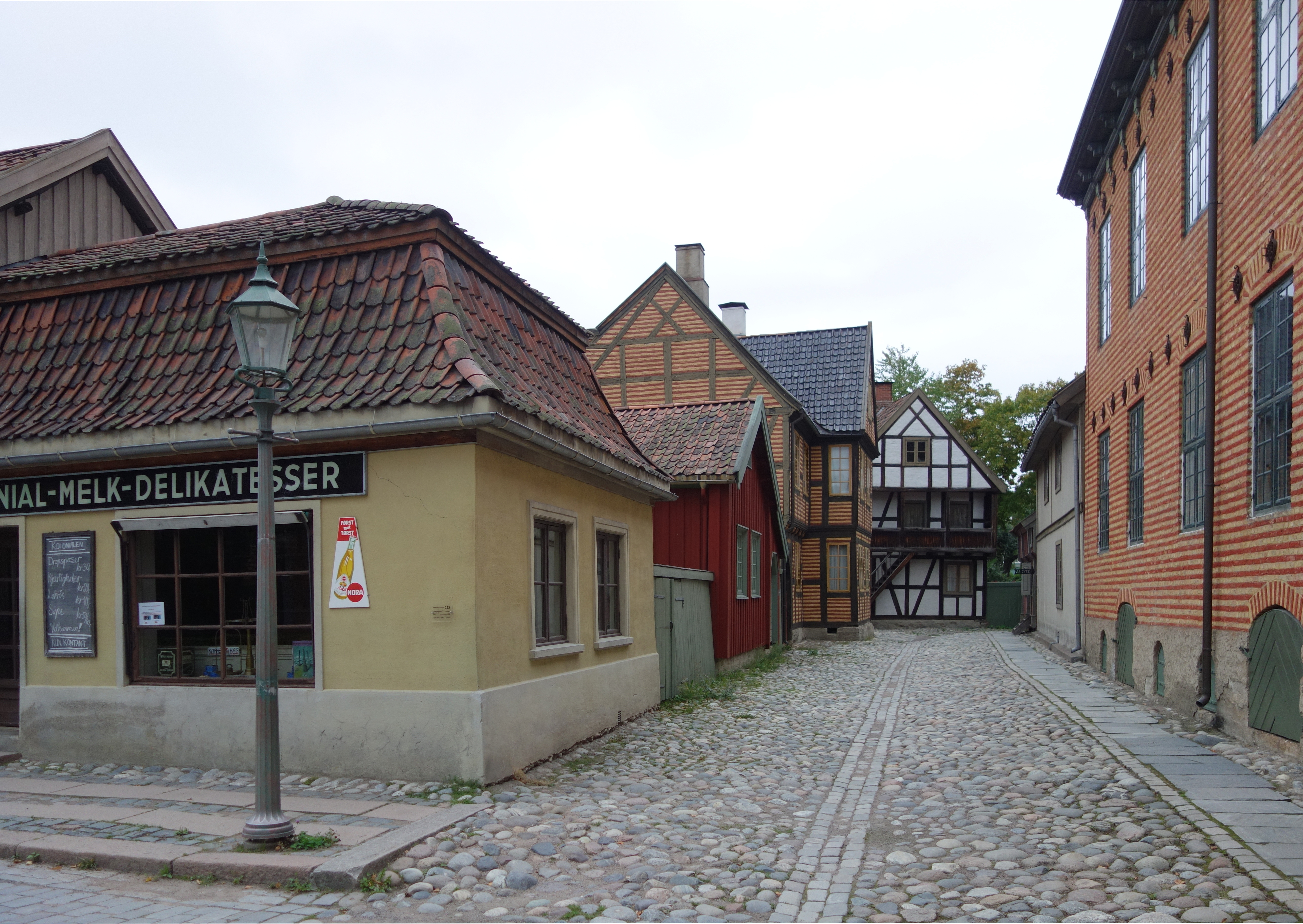 A street in the "Old Town" of the Norwegian Museum of Cultural History in Oslo.